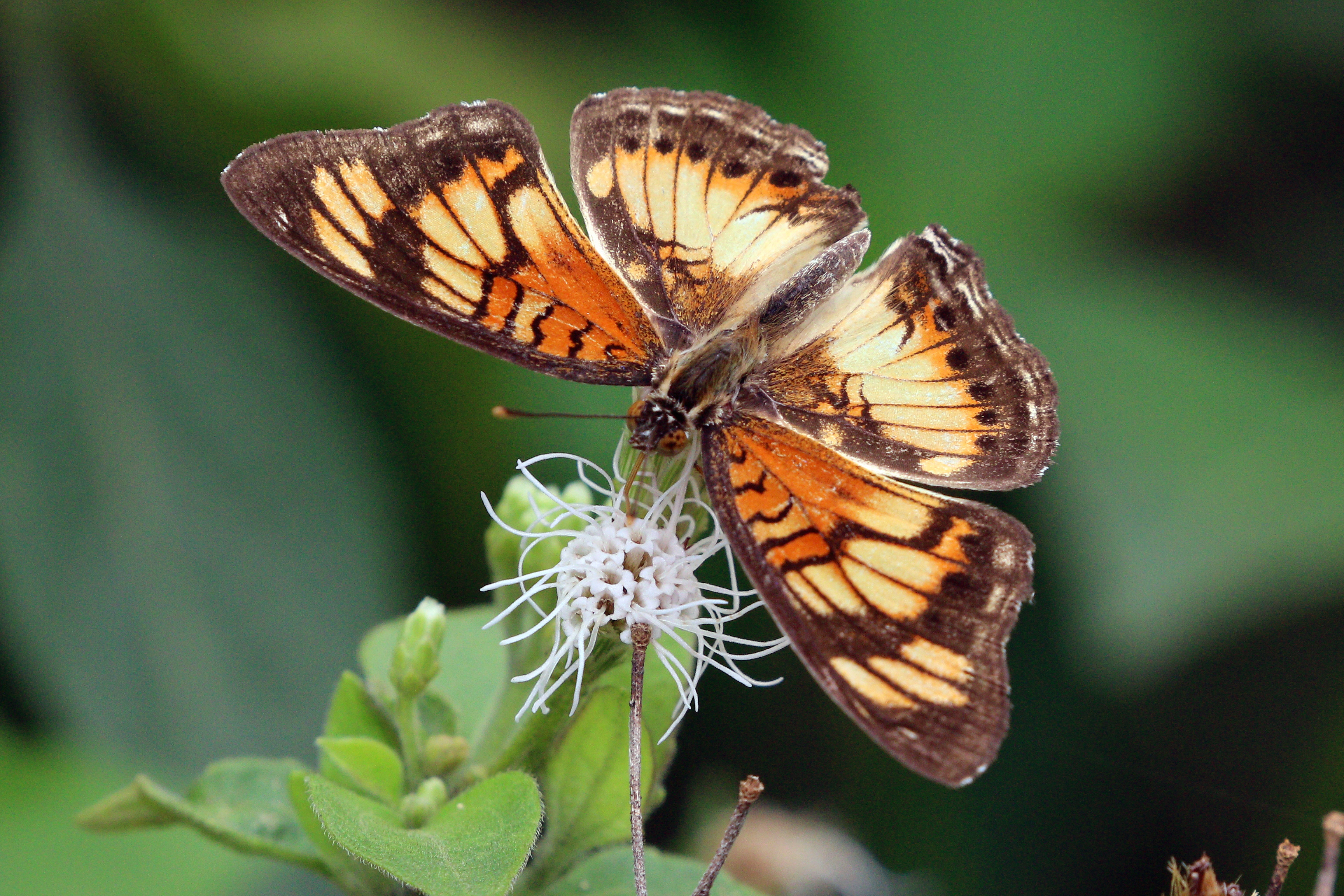 Little commodore (Junonia sophia sophia) female, Ghana